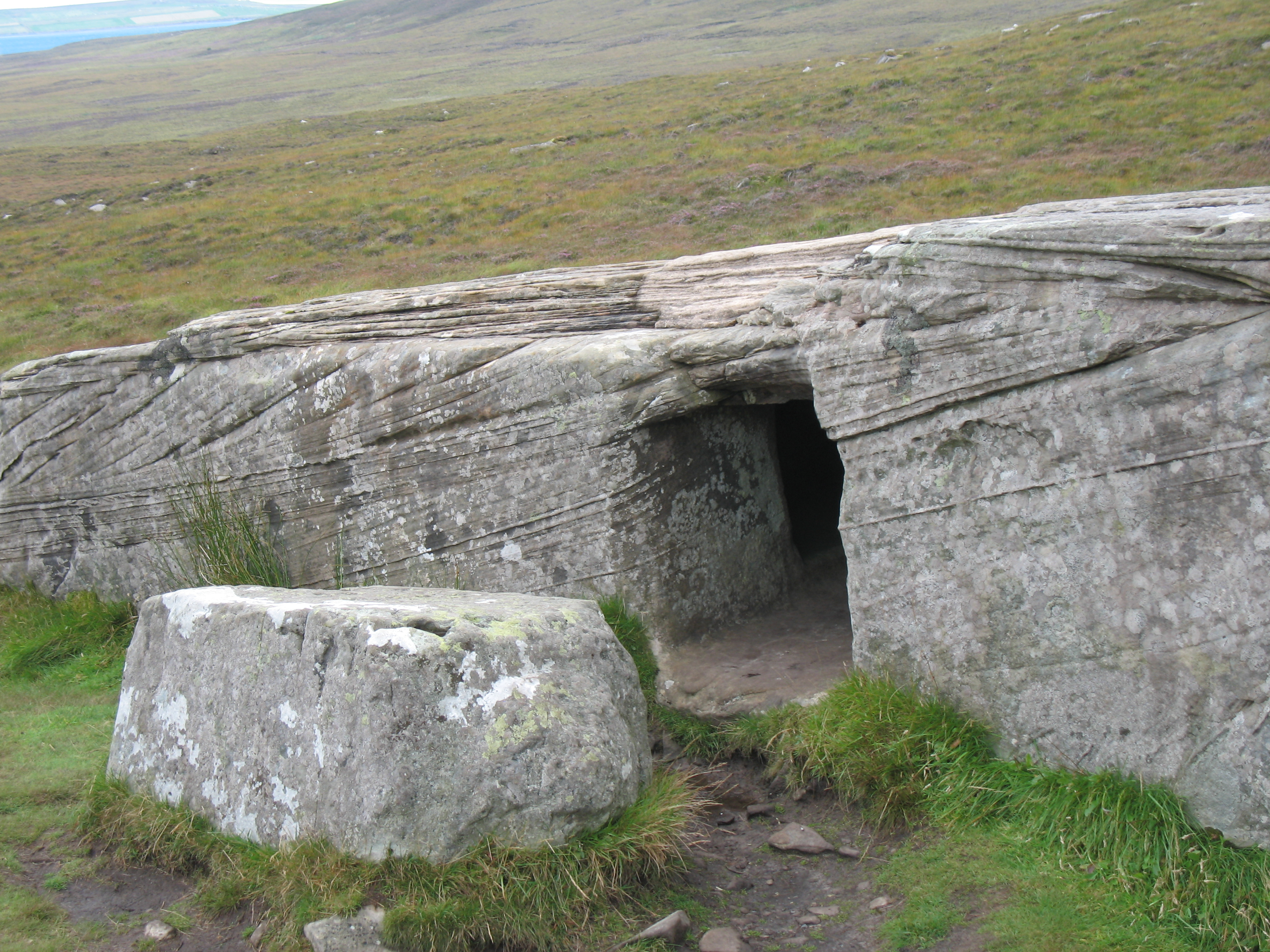 This was one of the most amazing things I saw on Orkney. It is a neolithic tomb carved out of the inside of an enormous sandstone boulder. I can't imagine how difficult it must have been to make this using only stone tools. I tried it out for size. Stane)&t=h See where this picture was taken. [?]